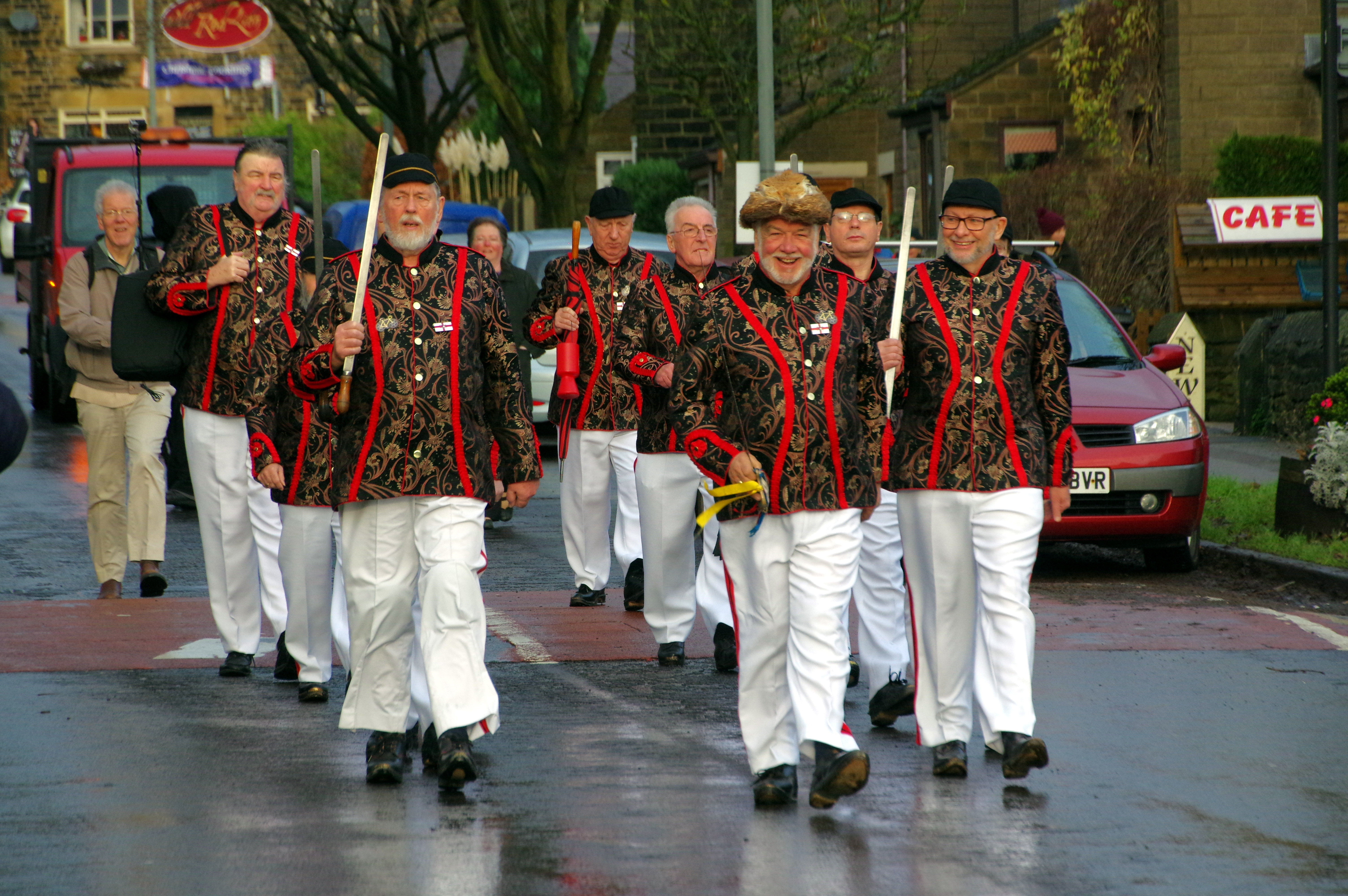 26.12.15 Grenoside Sword and Clog DancingDancing